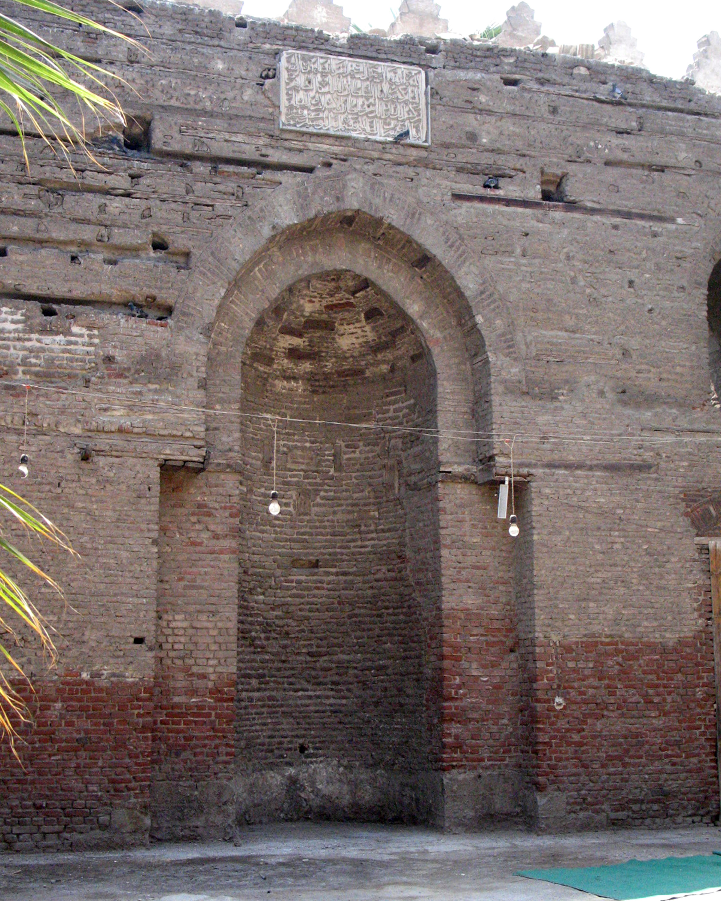 Qibla wall of Al-zahir Baybars mosque